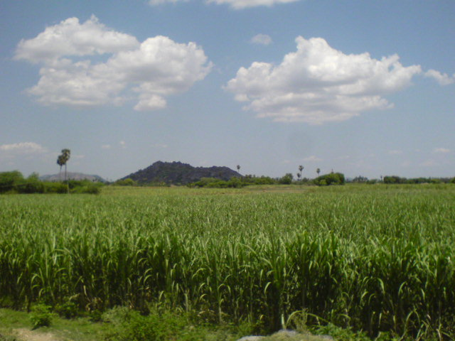 Sugarcane field in India